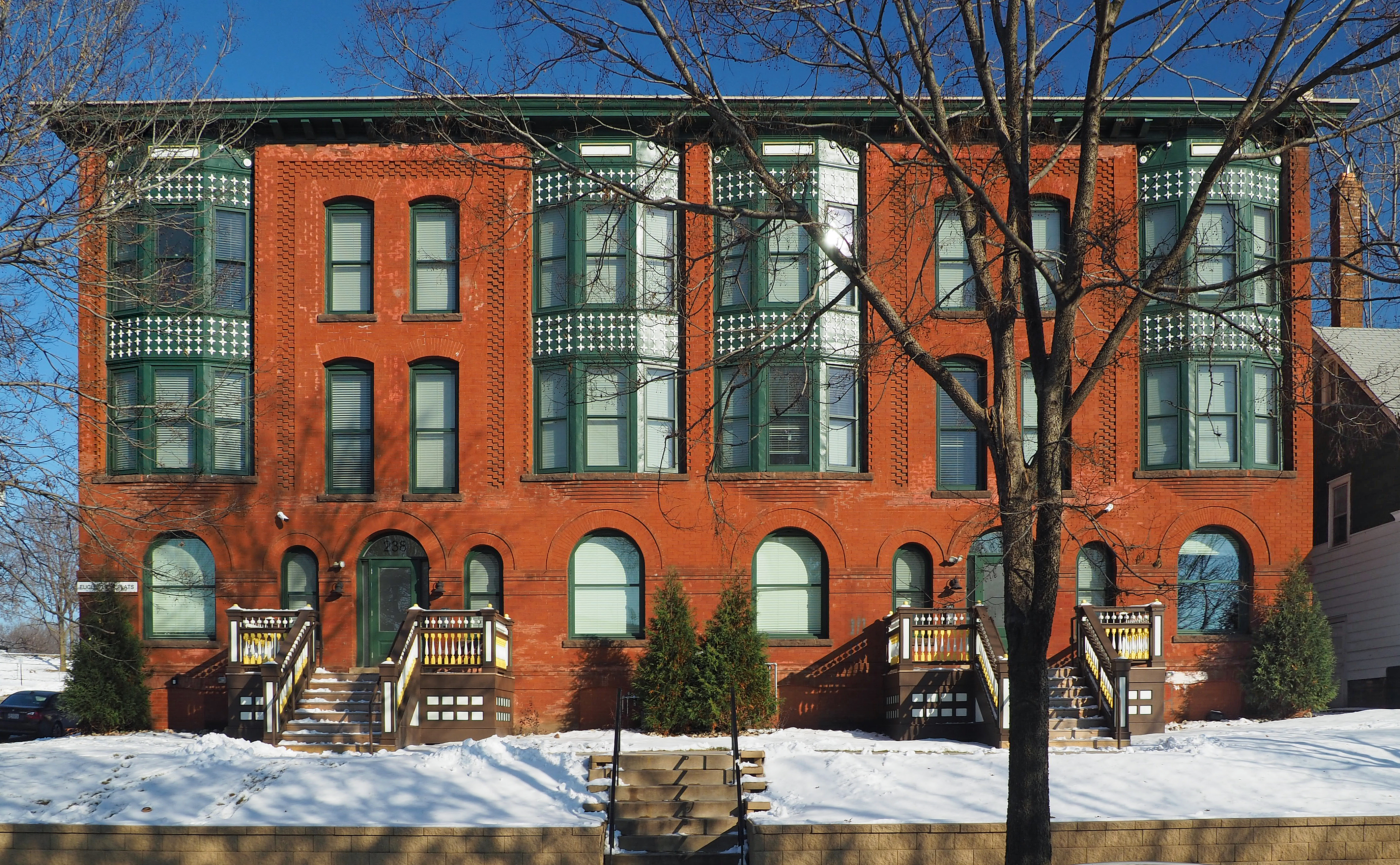 Euclid View Flats, 234–238 Bates Avenue, St. Paul, Minnesota, USA. Viewed from the southwest.